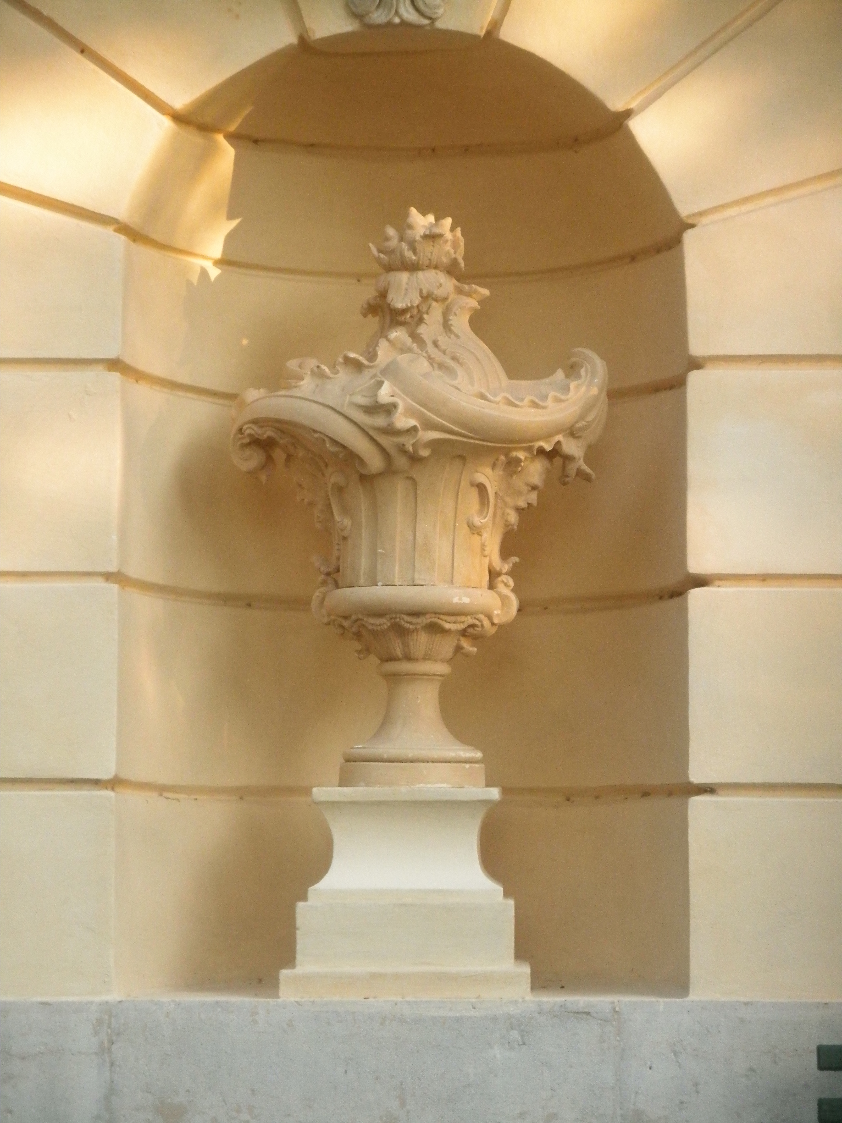 Un pot à feu au Plantier 1857